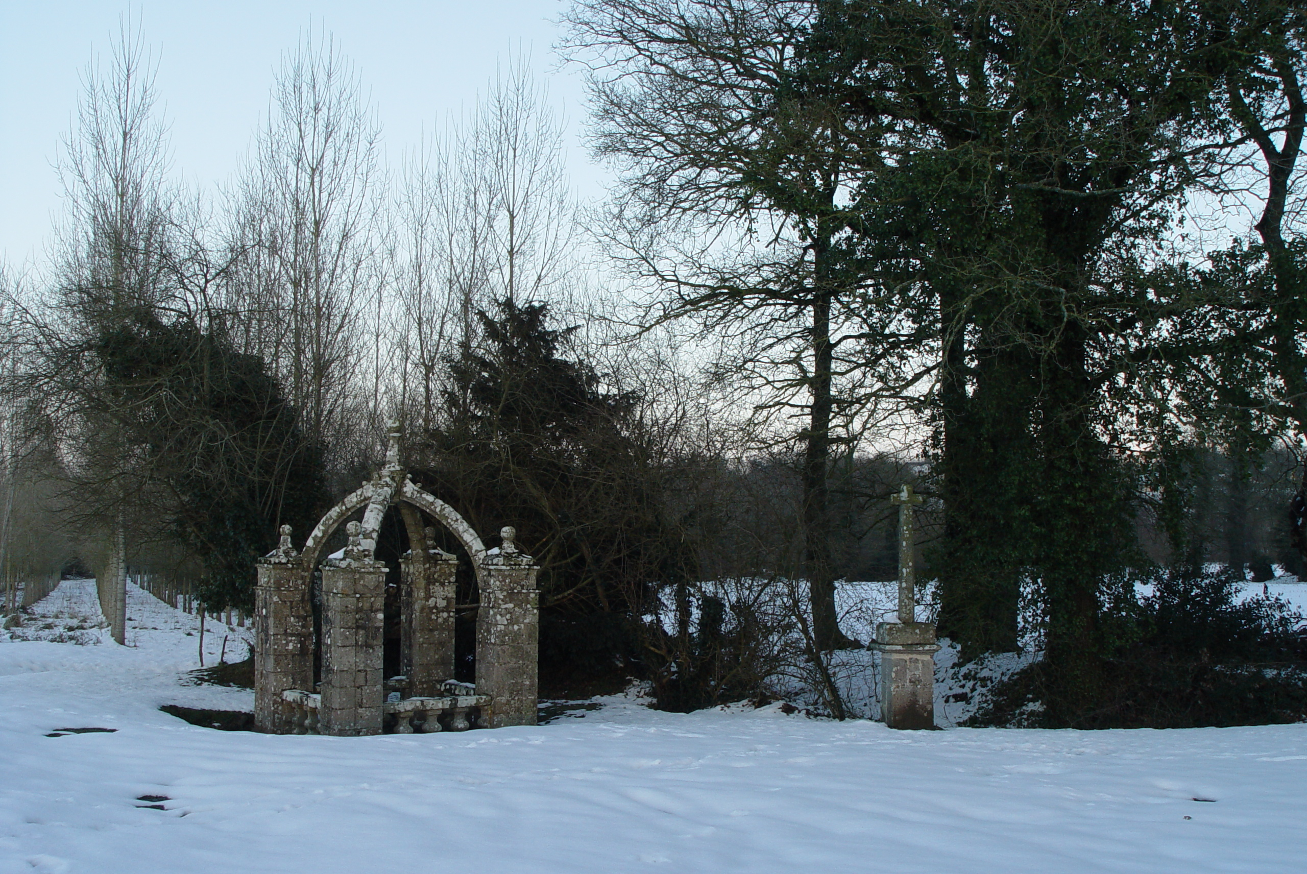 Fontaine of Saint Fiacre in Radenac